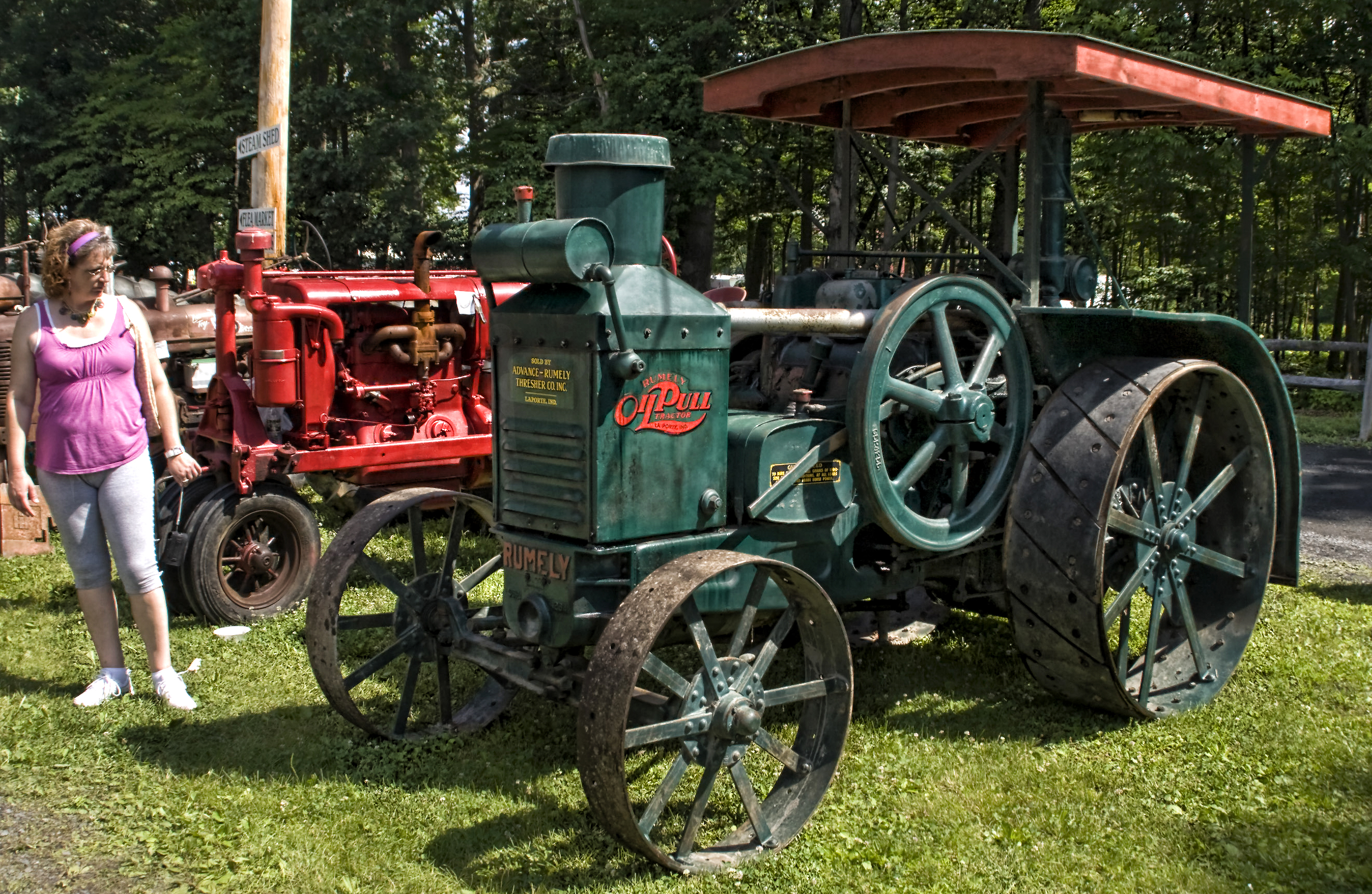 While in Pennsylvania, we took in the Antique Gas Engine and Tractor Show, which was fascinating. I took pictures of objects I couldn't even identify just because they looked so nifty.